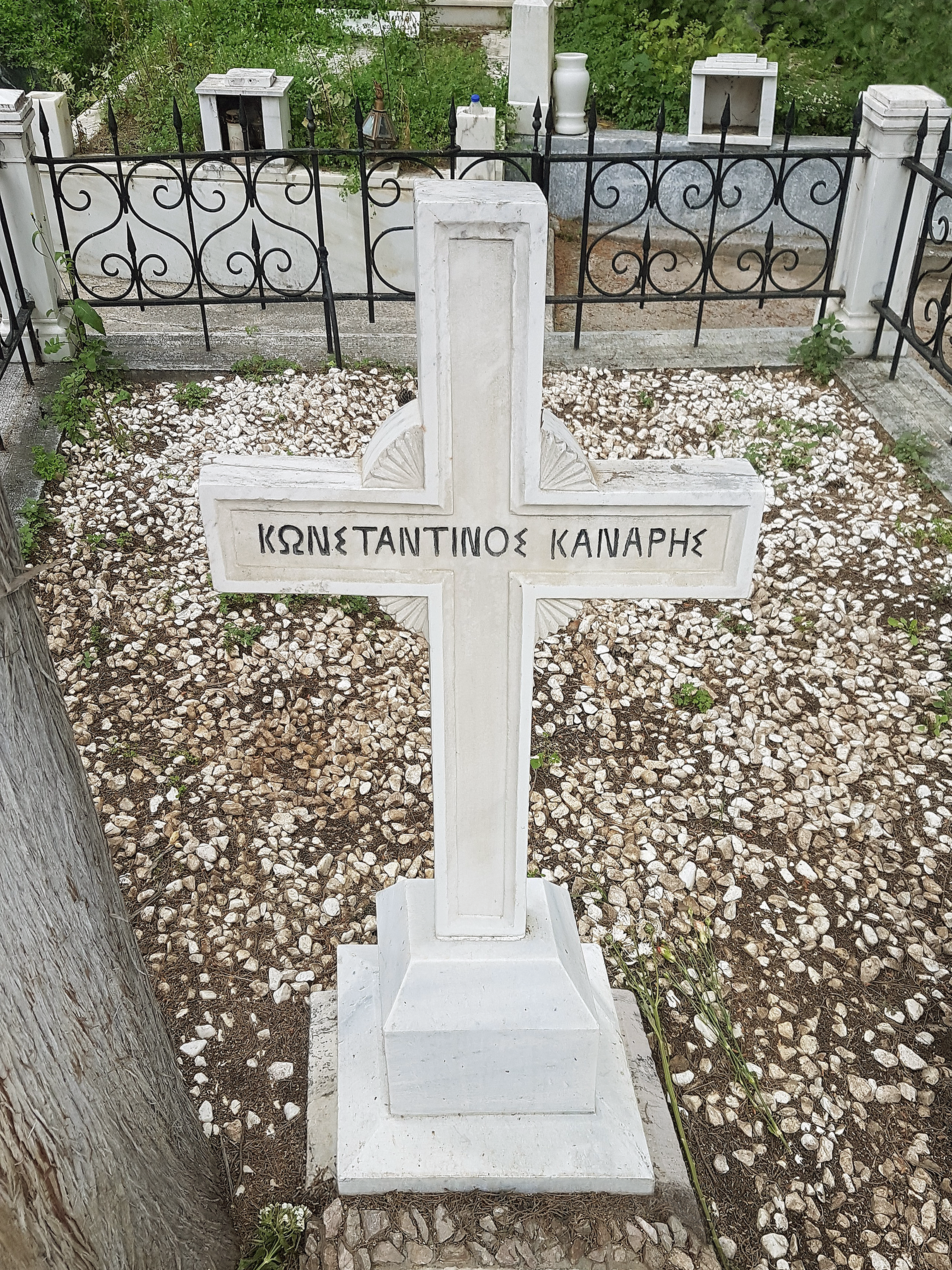 Tomb of Konstantinos Kanaris in the first cemetery of Athens